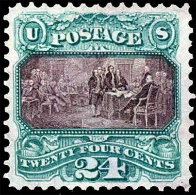 One of the finest examples of engraving, the center of the stamp consists of a miniature masterpiece. James Smillie engraved 42 persons, and the six principal figures can be recognized under a magnifying glass! Son of the governor of Connecticut, John Trumbull was the first native-born American to dedicate himself to painting. He was an aide-de-camp to George Washington in the Revolutionary War. Trumbull's hopes of being the nation's official history painter were stymied until 1817, when the U.S. Congress commissioned him to paint four scenes from the war for the Capitol rotunda. In that same year, he was named director of the American Academy of Fine Arts in New York City.